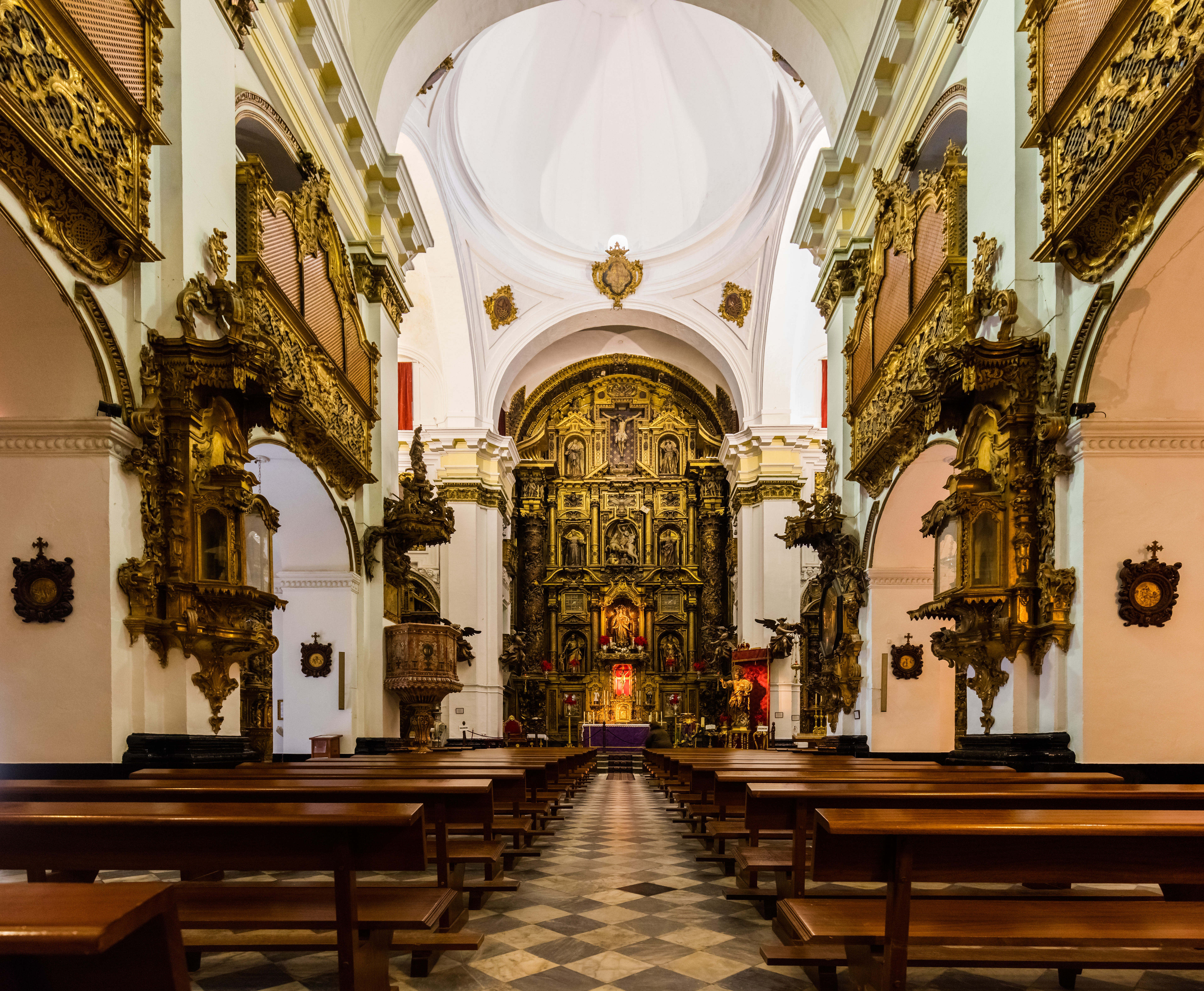 Santiago Apóstol Church, Cádiz, Spain